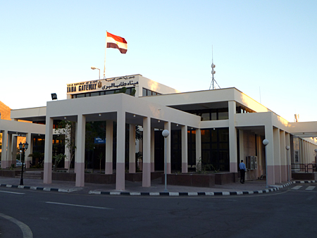 Border checkpoint at Taba (Egypt)